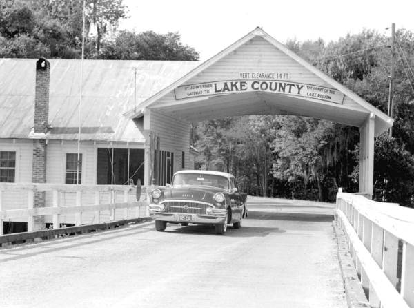 Car crossing a bridge : Astor, Florida.